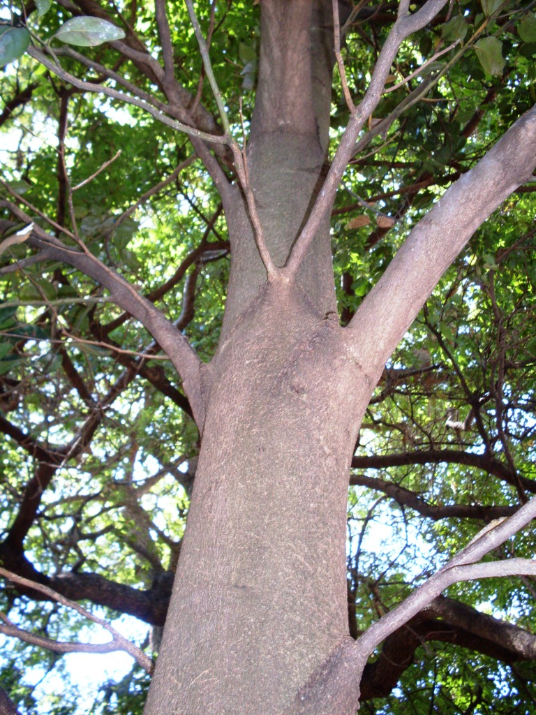 Cryptocarya-foetida trunk